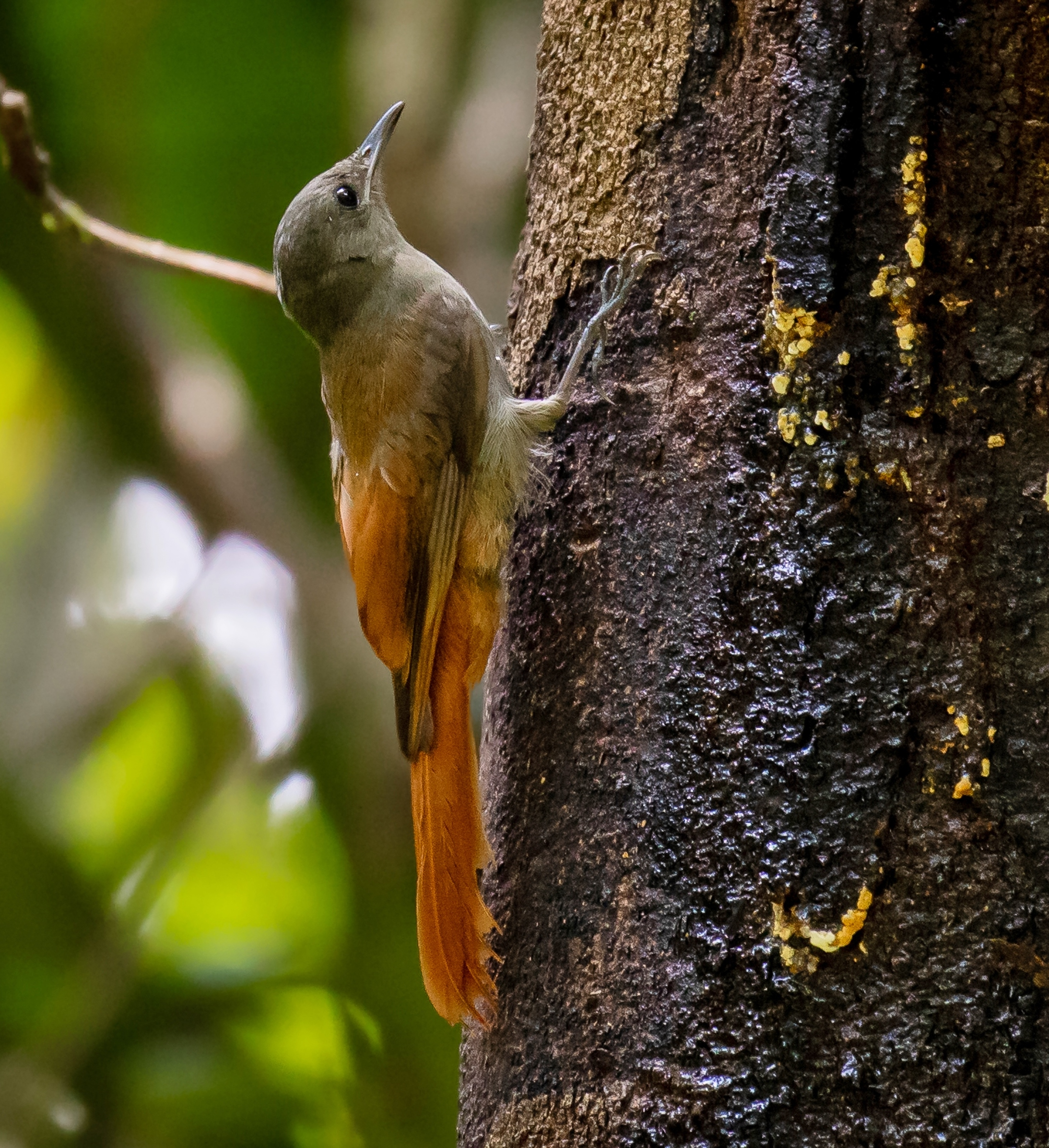 Eastern olivaceus Woodcreeper (Amazonian), Manacapuru, Amazonas, Brazil